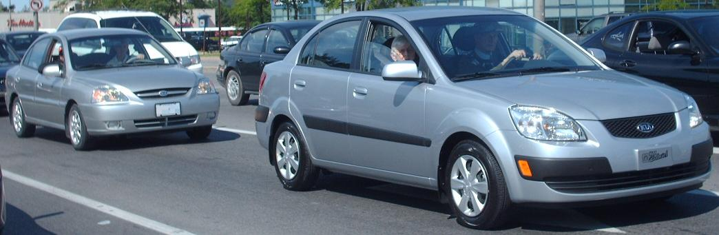 2003-2005 & 2006-2008 Kia Rios photographed in Montreal, Quebec, Canada.